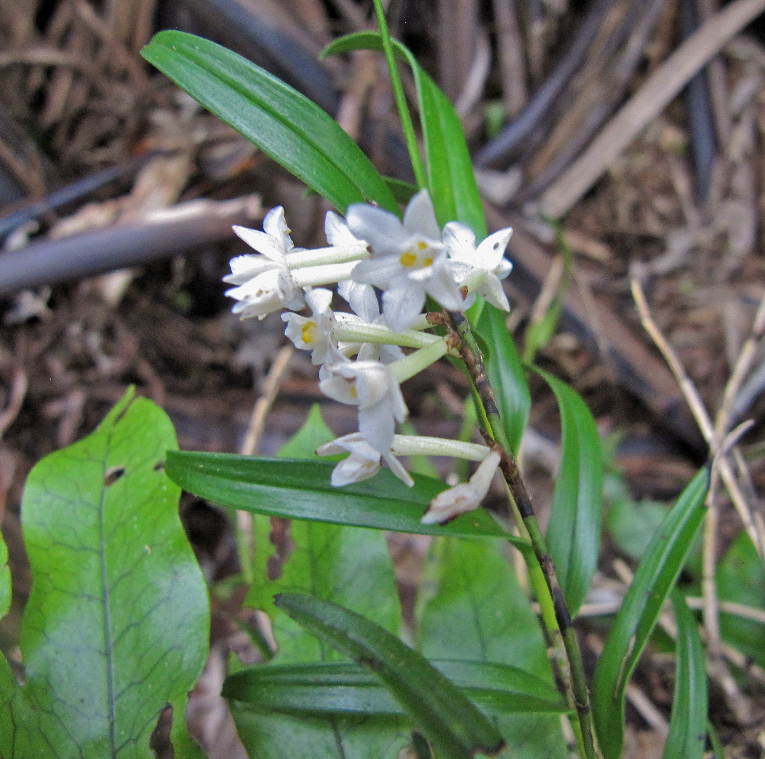 Easter orchid (Earina autumnalis) at about 500m on Mount Karioi